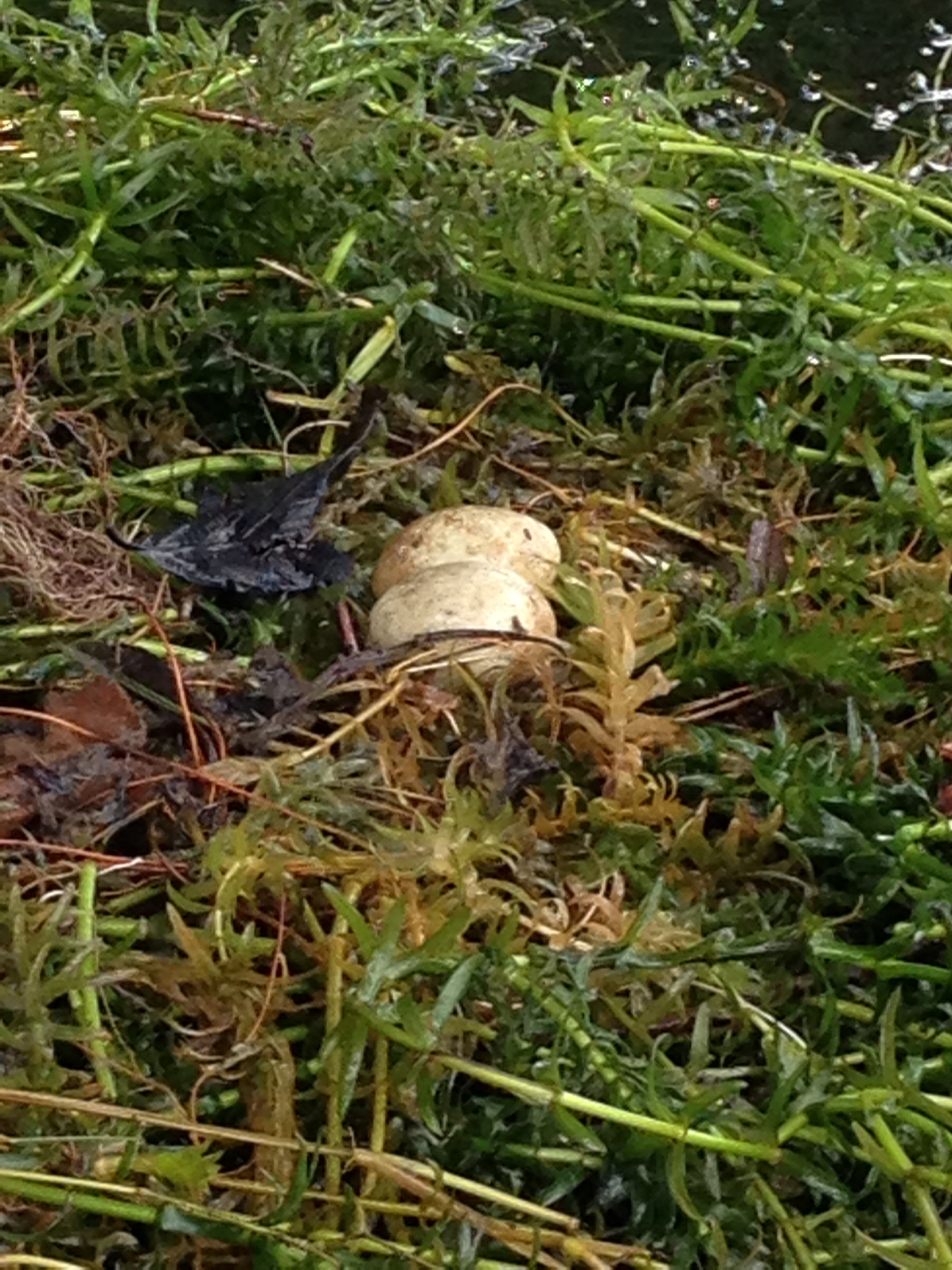 Podilymbus podiceps eggs at Bogotá's Simon Bolivar Metropolitan Park